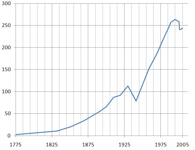 Population trend in Chernivtsi (Population in thousands inhabitants vs year)